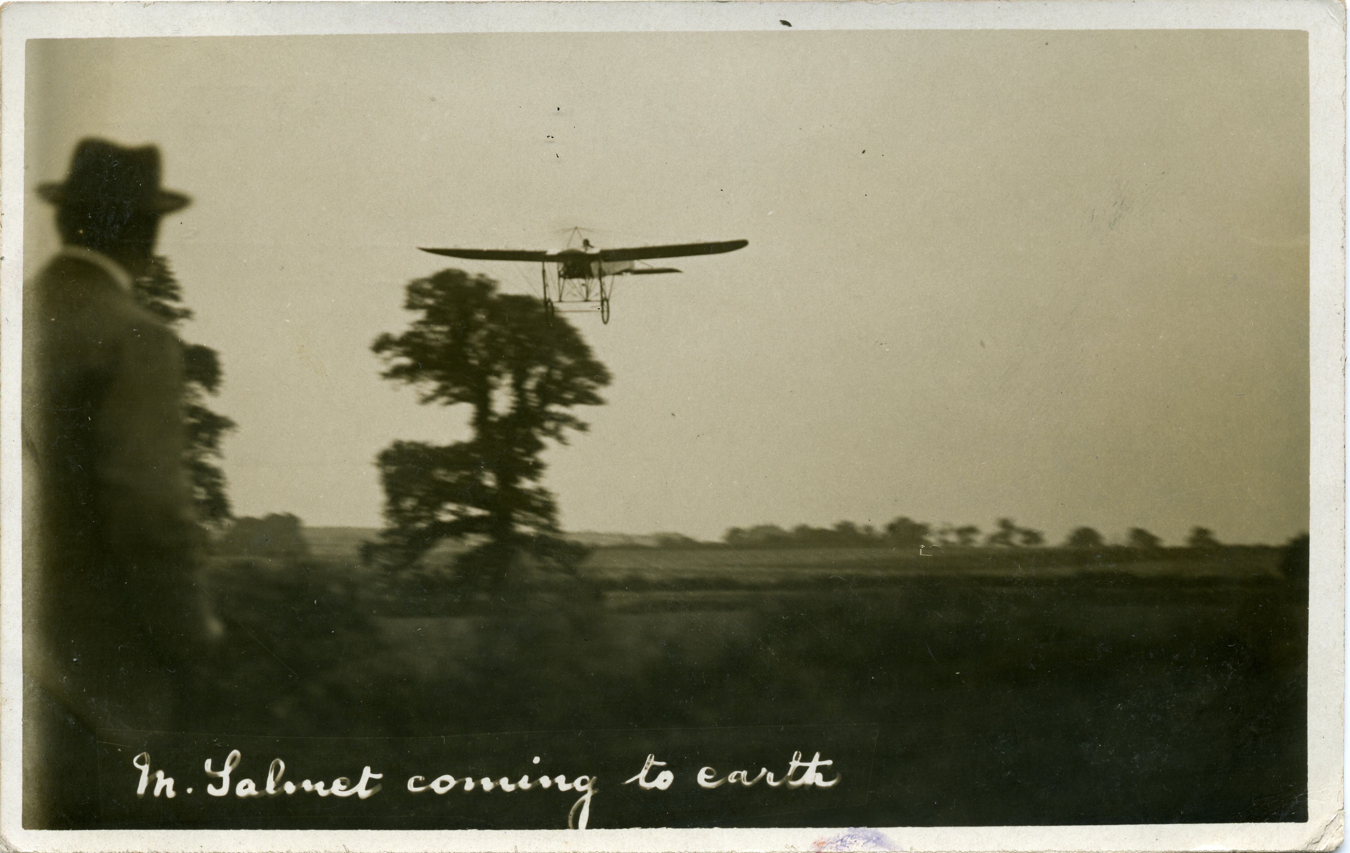 Postcard photo of the Salmet-Bleriot monoplane landing near Herne Bay, Kent, England, 1912. The postcard is dated 20 August 1912. The pilot was Henri Salmet who toured with a Bleriot plane in England in 1911-1913. Salmet is pictured at Llanelli in May of the same year, in this image: File:Henri Salmet at Llanelli 1912.jpg. The photographer was Fred C. Palmer of Tower Studio, Herne Bay, Kent, who died in 1941. This print has darkened with age, but it would be inappropriate to adjust the brightness because detail would be lost. Border The remaining border of this image is important for researchers of this photographer. Some photographers trimmed their images more than others, and Palmer has a reputation for producing smaller postcards than other early 20th century UK photographers. He took his own photos, developed them in-house onto postcard-backed photographic paper and trimmed them himself. This is one of the reasons why the quality of his work is so interesting, and why there is an article and category for him on English Wiki. Researchers need to see exactly where the edge of the postcard is. Thank you for taking the time to read this. Points of interest Palmer has managed to get the moving plane sufficiently in focus for a postcard, although the rest of the image is blurred. This is quite an achievement, because he could not have known the exact direction in which the plane would land; therefore he could not measure the distance for focus beforehand. Palmer would have used a field camera with a half-plate (glass). If you zoom in to the plane, you can see Salmet's head. The plane looks very fragile.